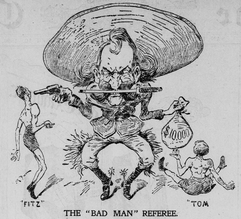 A cartoon caricature of Wyatt Earp after the Sharkey-Fitzimmons fight. Acting as referee, Earp called the fight in Sharkey's favor, although Fitzimmons was winning, because of a foul when Fitzimmons struck Sharkey in the groin. The public was outraged by Earp's decision and newspapers pilloried Earp for many weeks afterward.